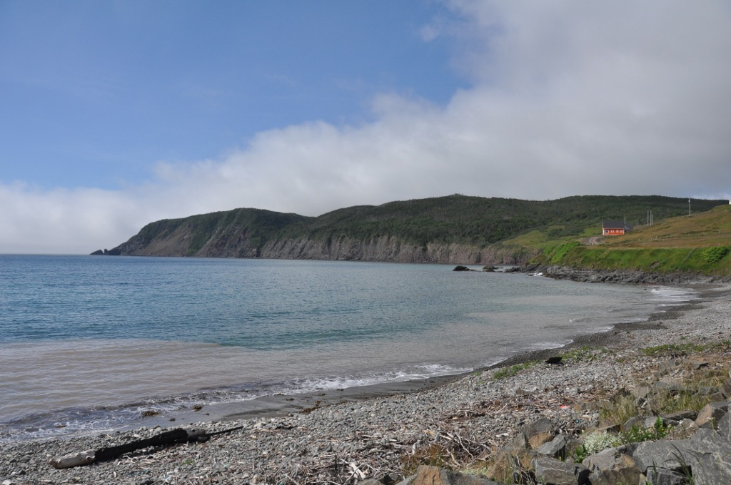 Branch Cove Fossiliferous Rocks Municipal Heritage Site, Branch, Newfoundland.